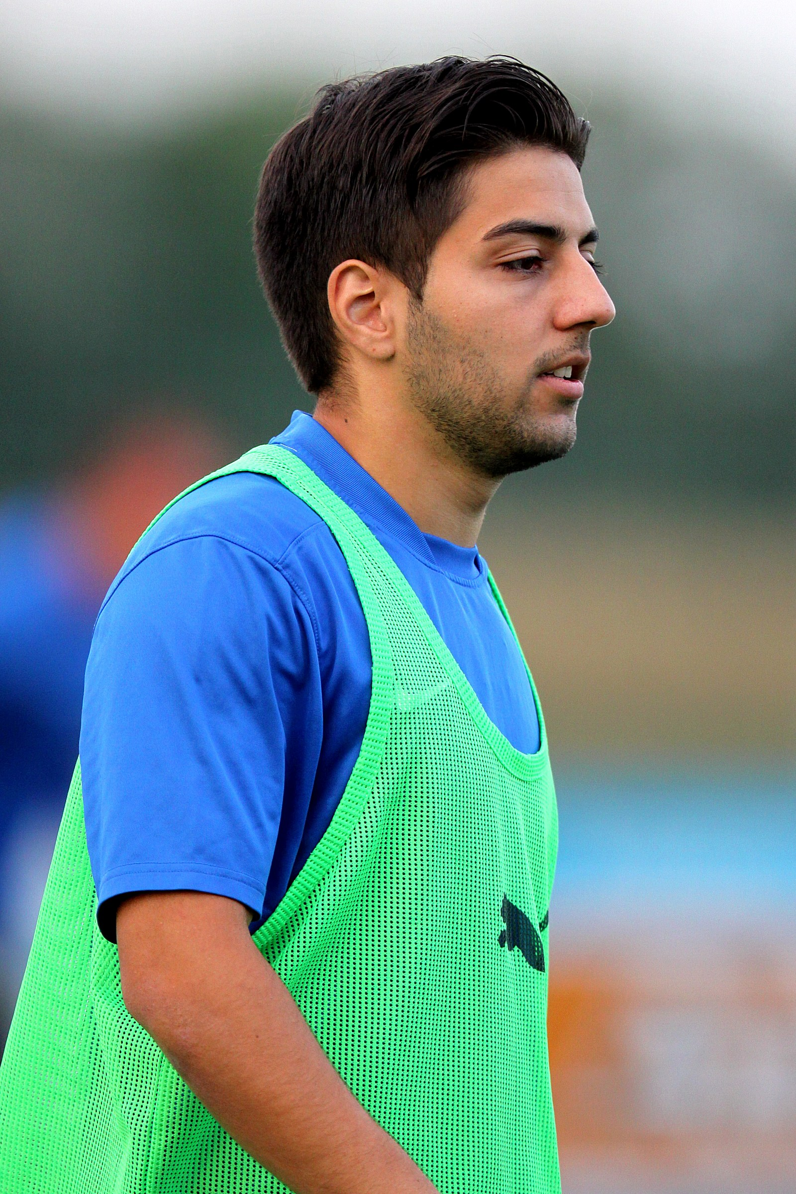 Austrian Cup – ASK Ebreichsdorf (blue shirts) vs. SC Wiener Neustadt (white shirts) on 2015-09-22 in Ebreichsdorf, 3-1 (1-1) – The photo shows Martin Demic (ASK Ebreichsdorf)